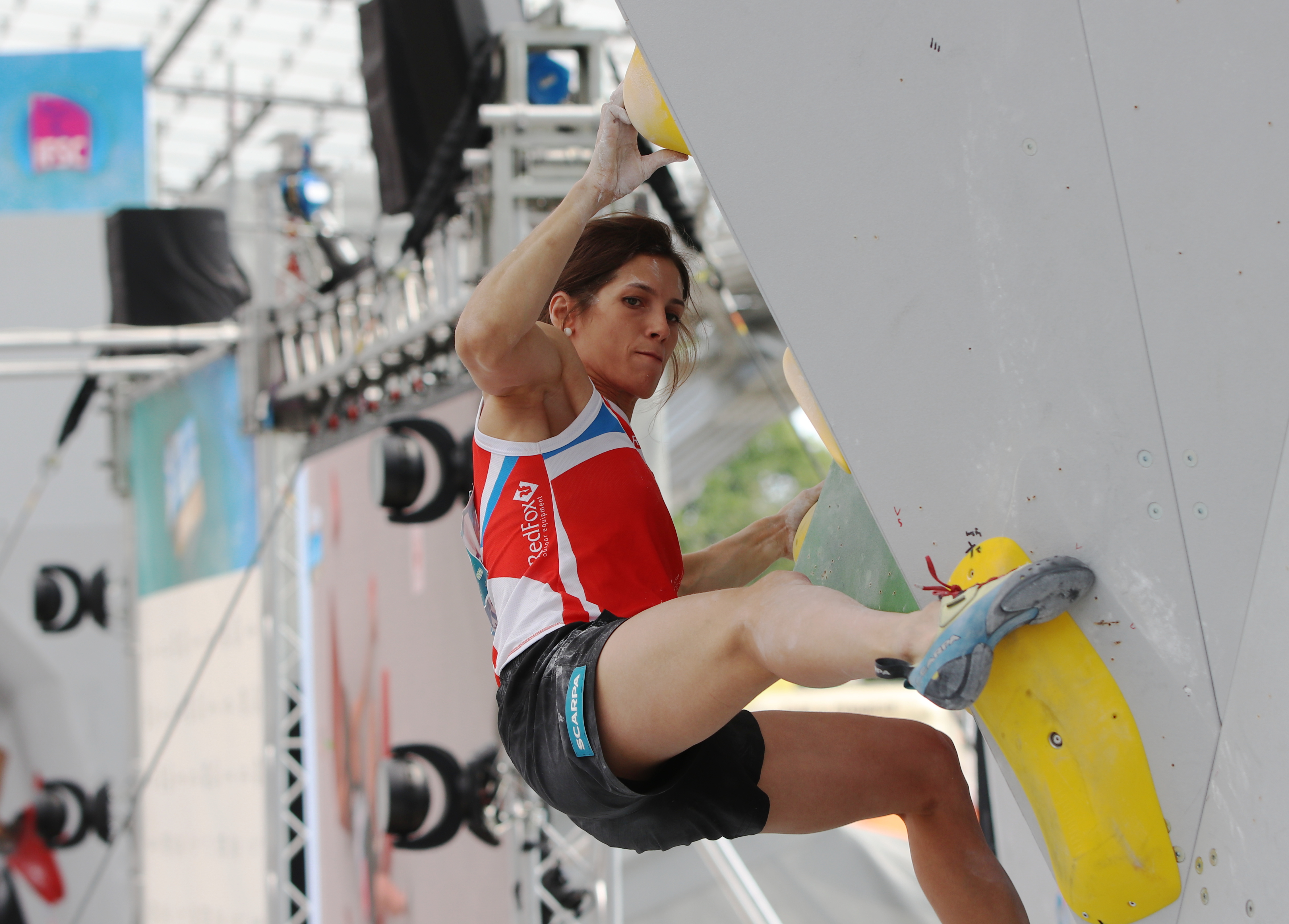 Boulder Worldcup 2018, Final Event in Munich 2018-08-18, Semi-Finals.